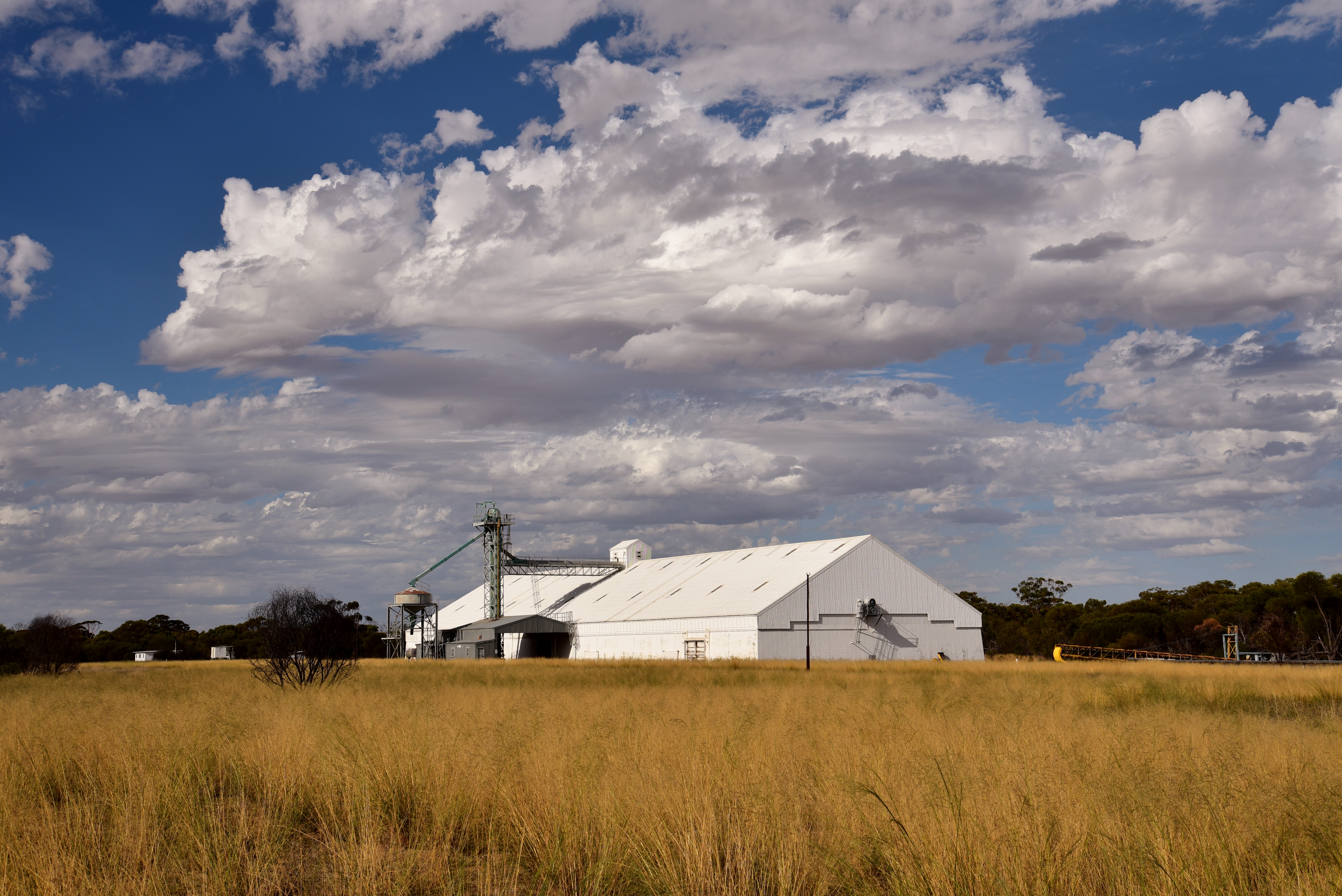 View of the CBH grain receival point at Yoting, Western Australia